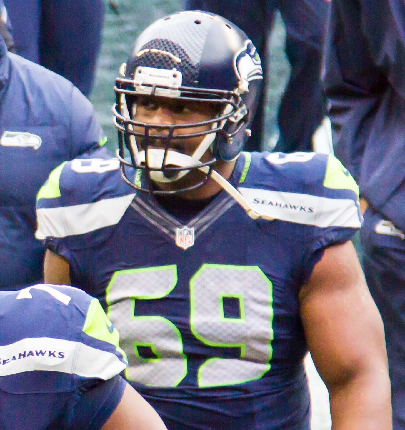 Seattle Seahawks defensive tackle Clinton McDonald